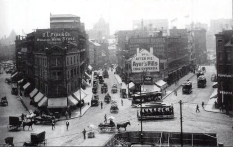 Haymarket Square in Boston, Massachusetts in August 1897. Haymarket station is under construction at bottom.